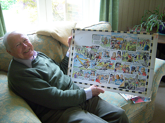 Mike Noble UK comic artist sitting with a piece of his original FollyFoot artwork which he drew for the comic Look-In